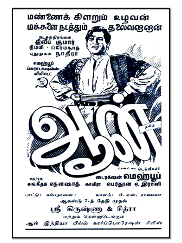 This is an advertisement for the Tamil-language film Aan (dubbed from Hindi with the same title). The ad was published in the Tamil-language weekly Kalki dated 3 August 1952